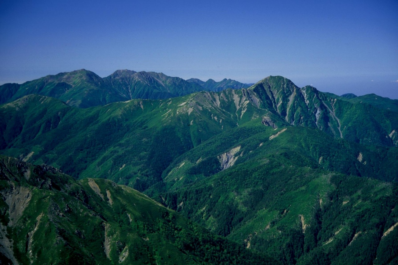 Mount Shiomi and Arakawa Mountains seen from Mount Ai